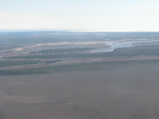 Attawapiskat First Nation of Community and the Attawapiskat River. This photo was taken by Brendan.